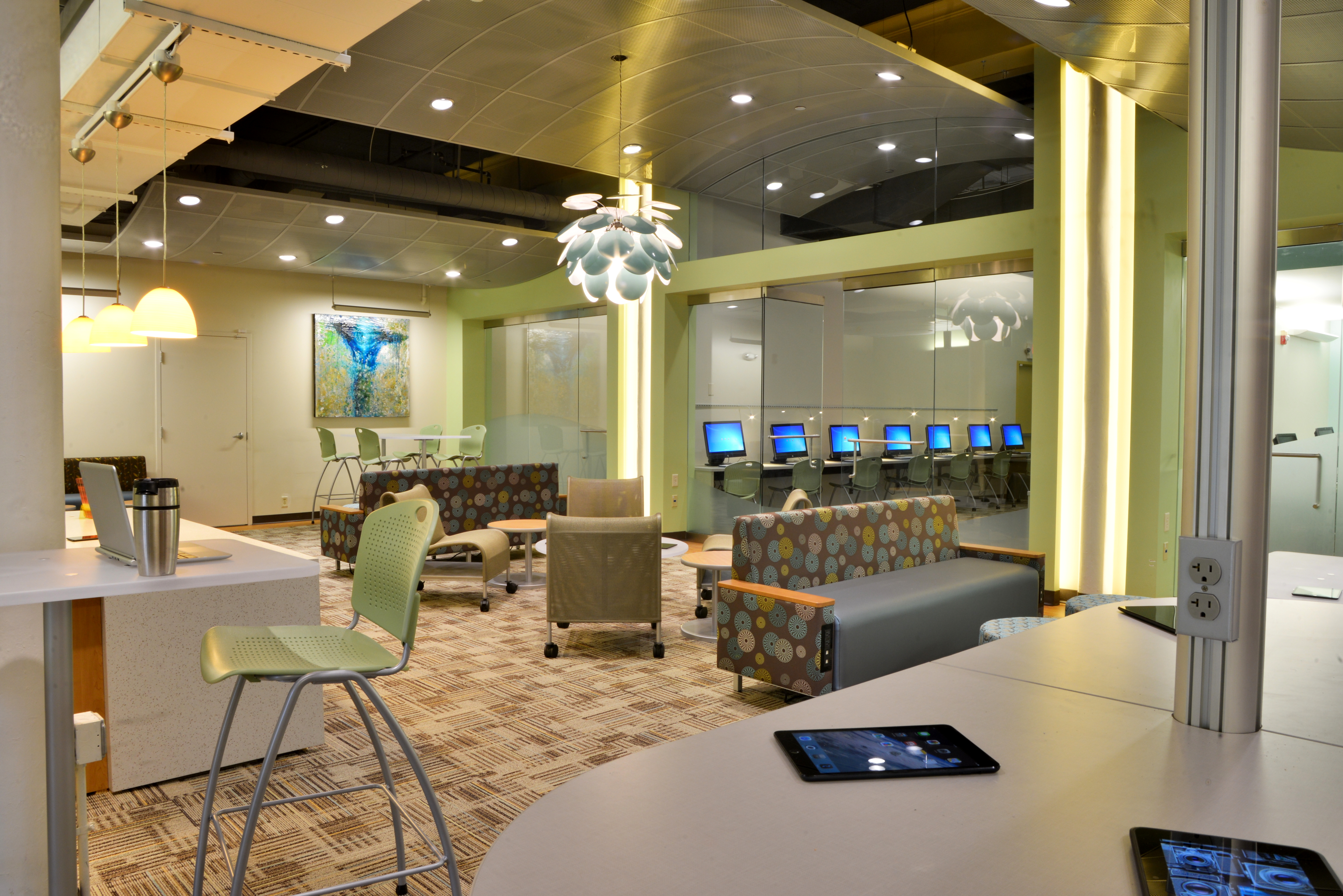 The Lane Tech Center features a public computer lab with high-end software, smart board, conference room, and 3D printers.